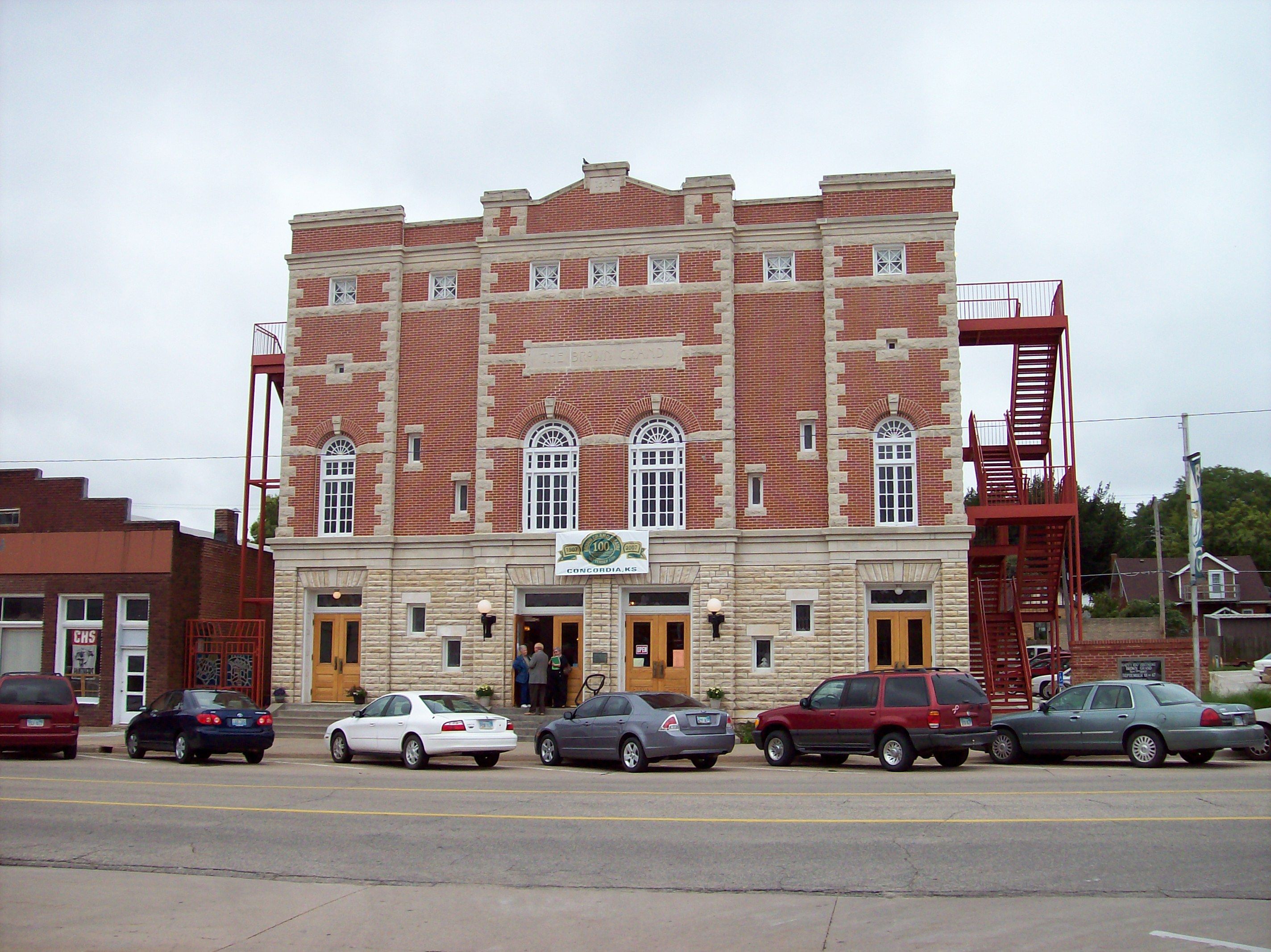 The Brown Grand Theatre in Concordia, Kansas. Photograph taken by Paul McDonald, released to the Public Domain. Photograph taken September 15, 2007.